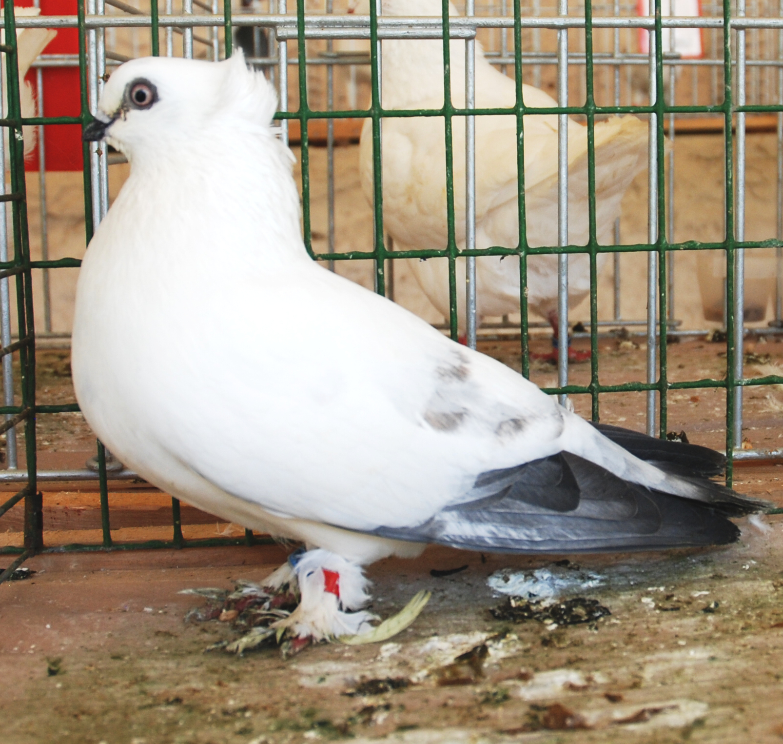 Bohemian Tumbler, grizzle